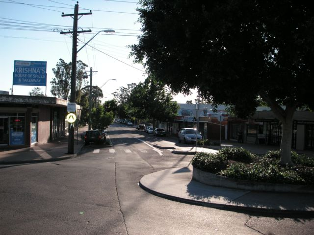 Shops in the old part of Quakers Hill, near the station